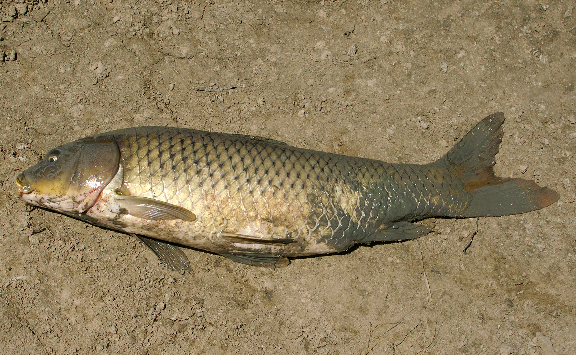 Cyprinus carpio carpio (European carp) on the dry bed of Lake Albert in Wagga Wagga, New South Wales, Australia